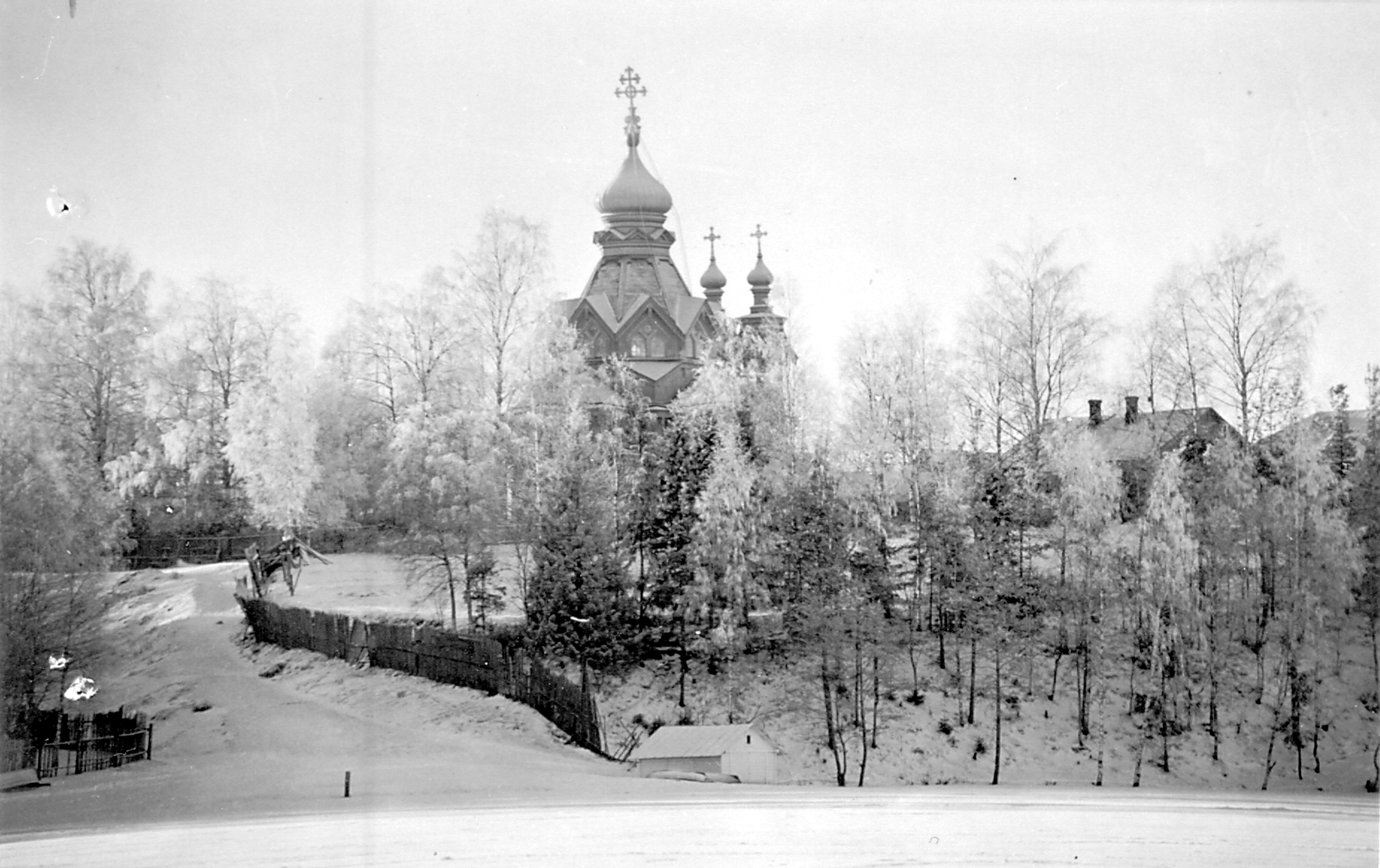 Ortodoxa kyrkan i Raivola. Edith Södergrans samling Signum: slsa566_404 Foto: Edith Södergran Svenska litteratursällskapet i Finland